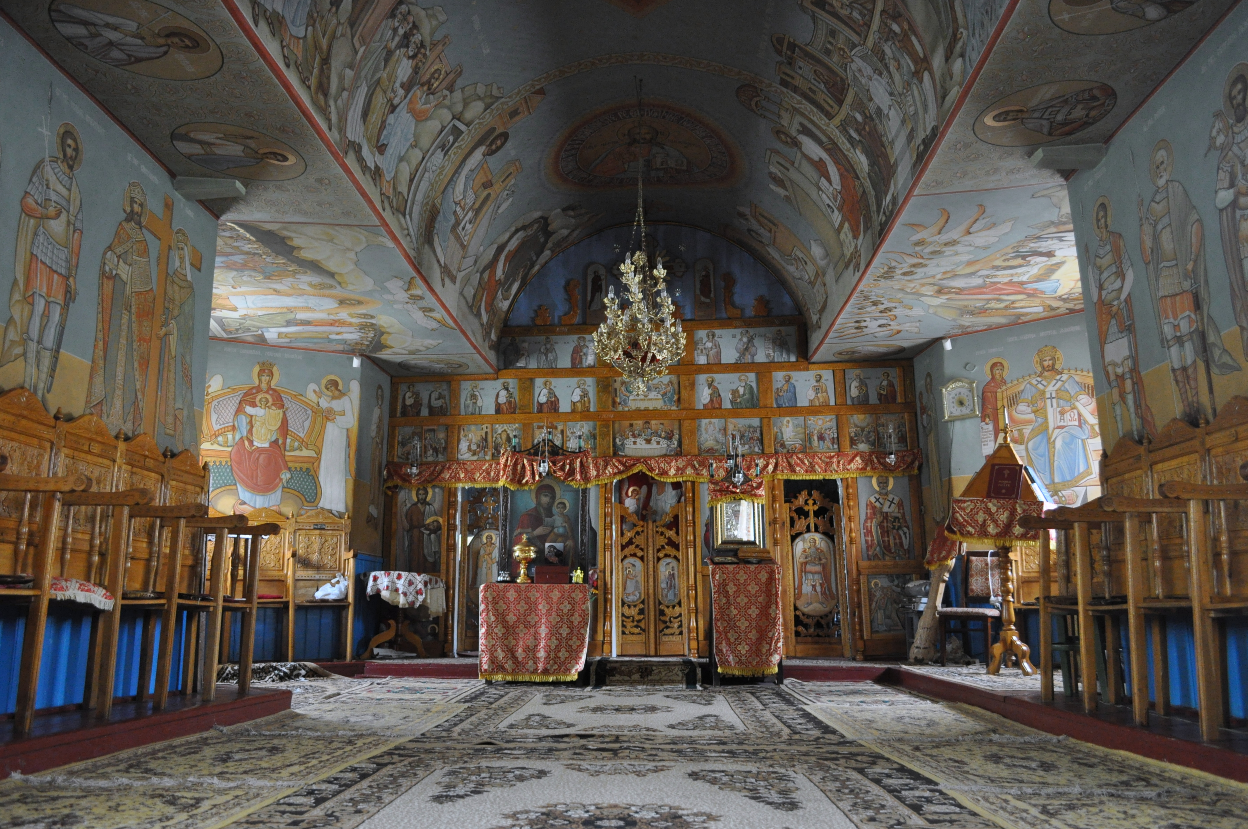 Biserica de lemn din Spulber-vale